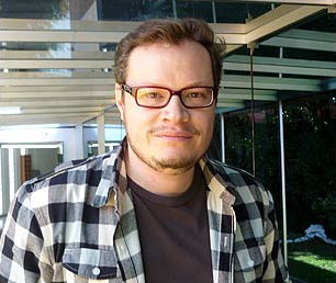 Photo of Leonel Gracia